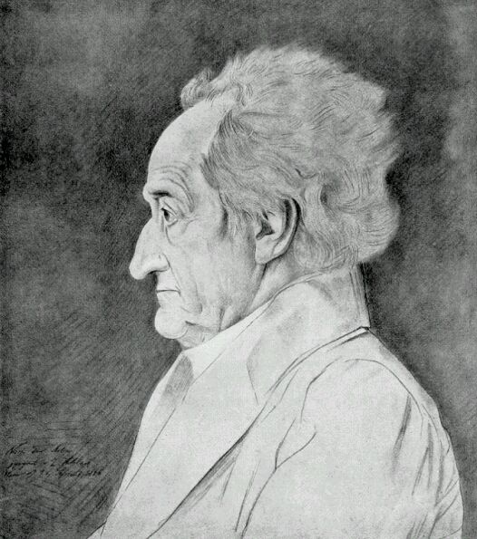 The portrait of Johann Wolfgang von Goethe